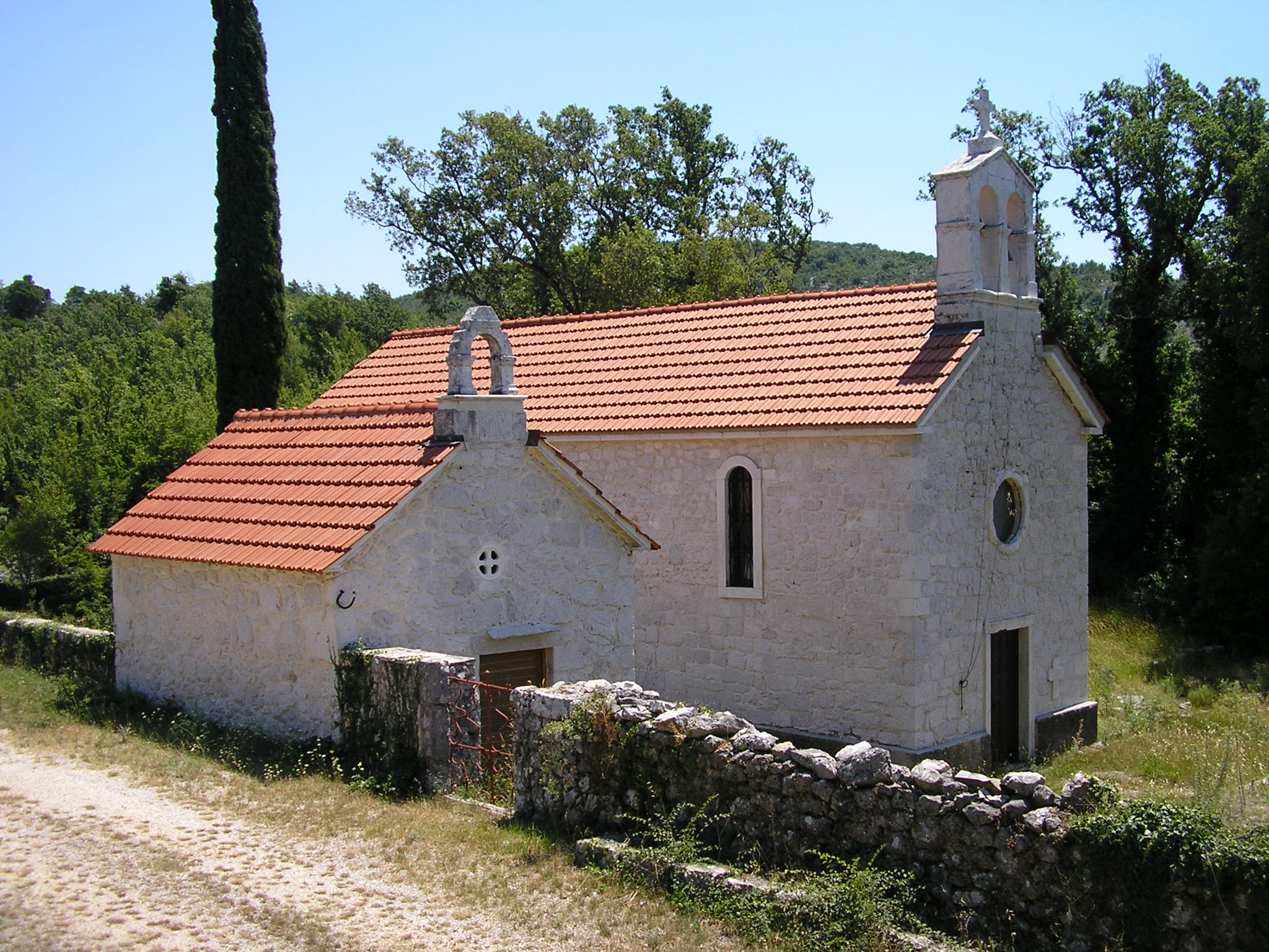 St. Michael's church in Struge (Pojezerje)